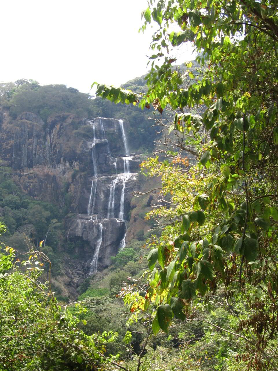 Just like an open wound in the mountain, the last stage of the waterfall seen from a distance.